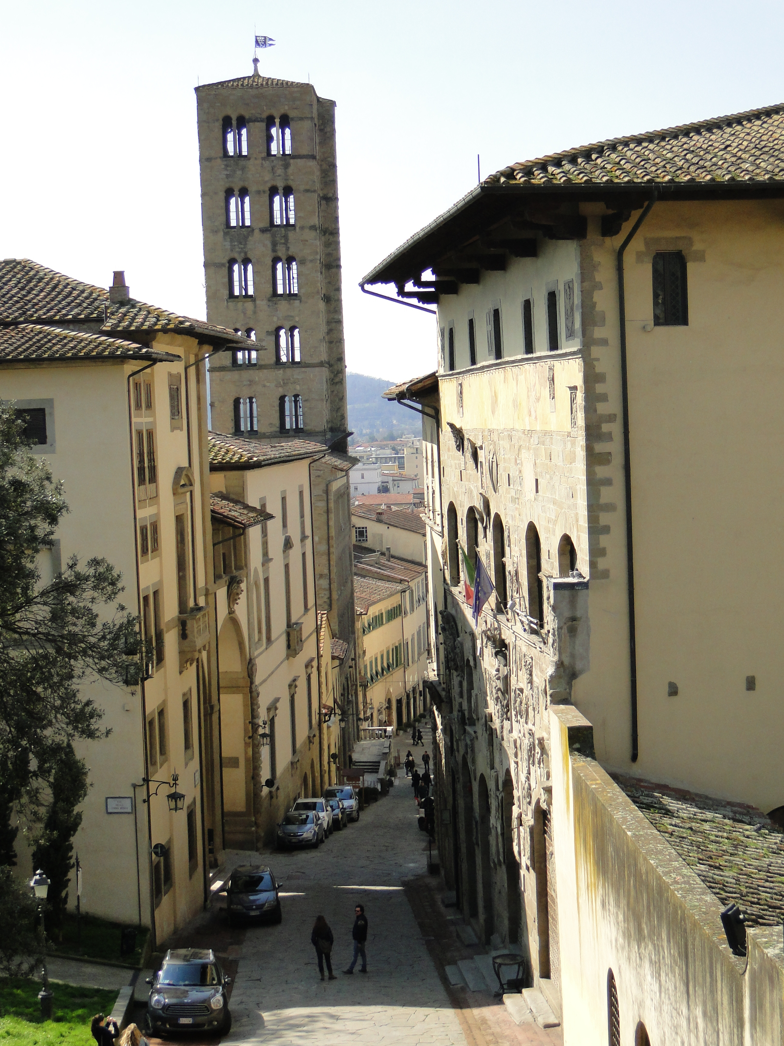 Arezzo: Corso Italia (Italy street)